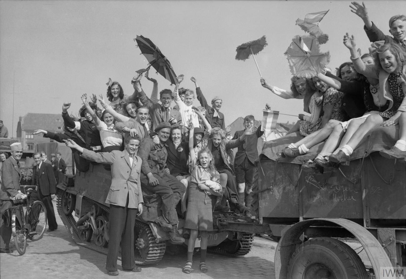 The British Army in North-west Europe 1944-45 Cheering Dutch civilians swarm onto a universal carrier and trailer as Eindhoven is liberated, 19 September 1944.